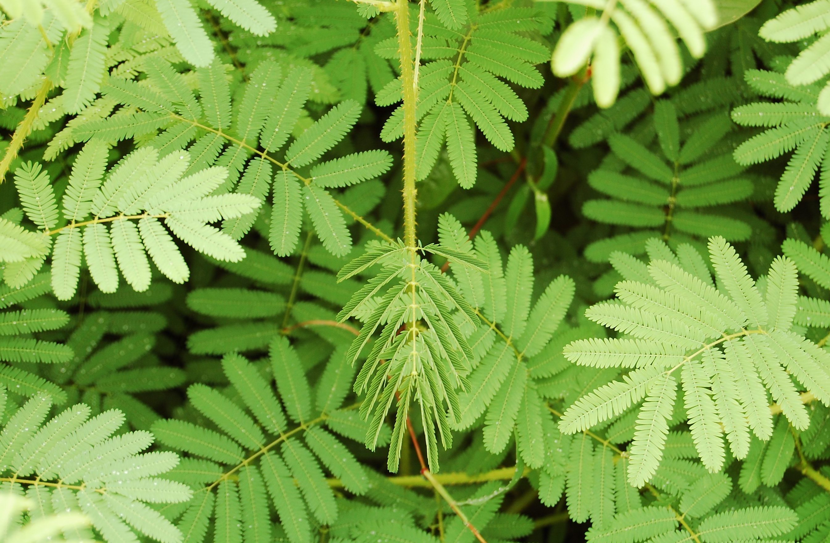 Giant sensitive plant after touching